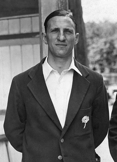 12th July 1946: Len Hutton